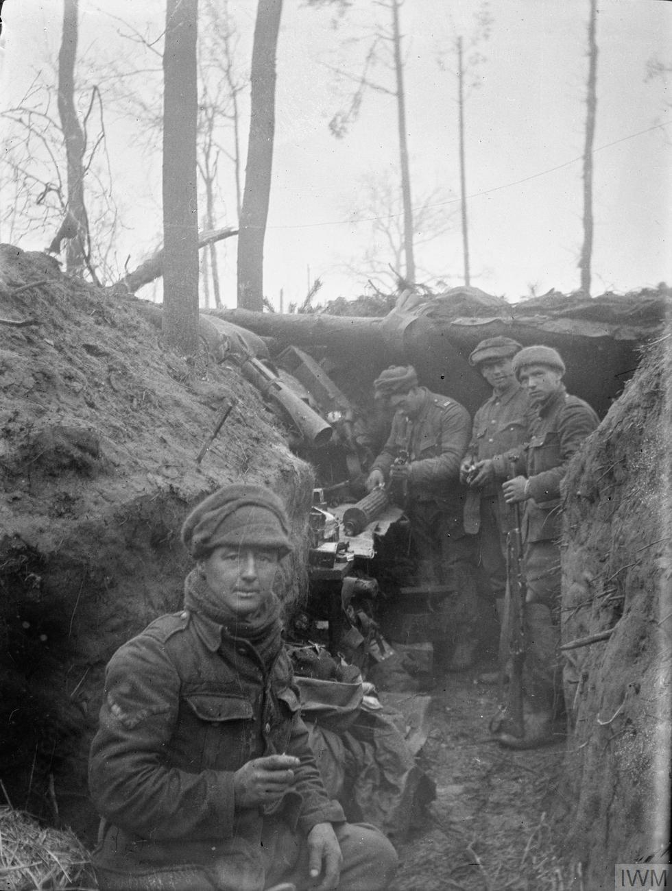 Xi Hussars on the Western Front 1914-1915 Soldiers of the machine gun section of the 11th Regiment Hussars (Prince Albert's Own) in the trenches at Zillebeke during the winter of 1914-1915.